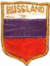 Patch of First Russian National Army